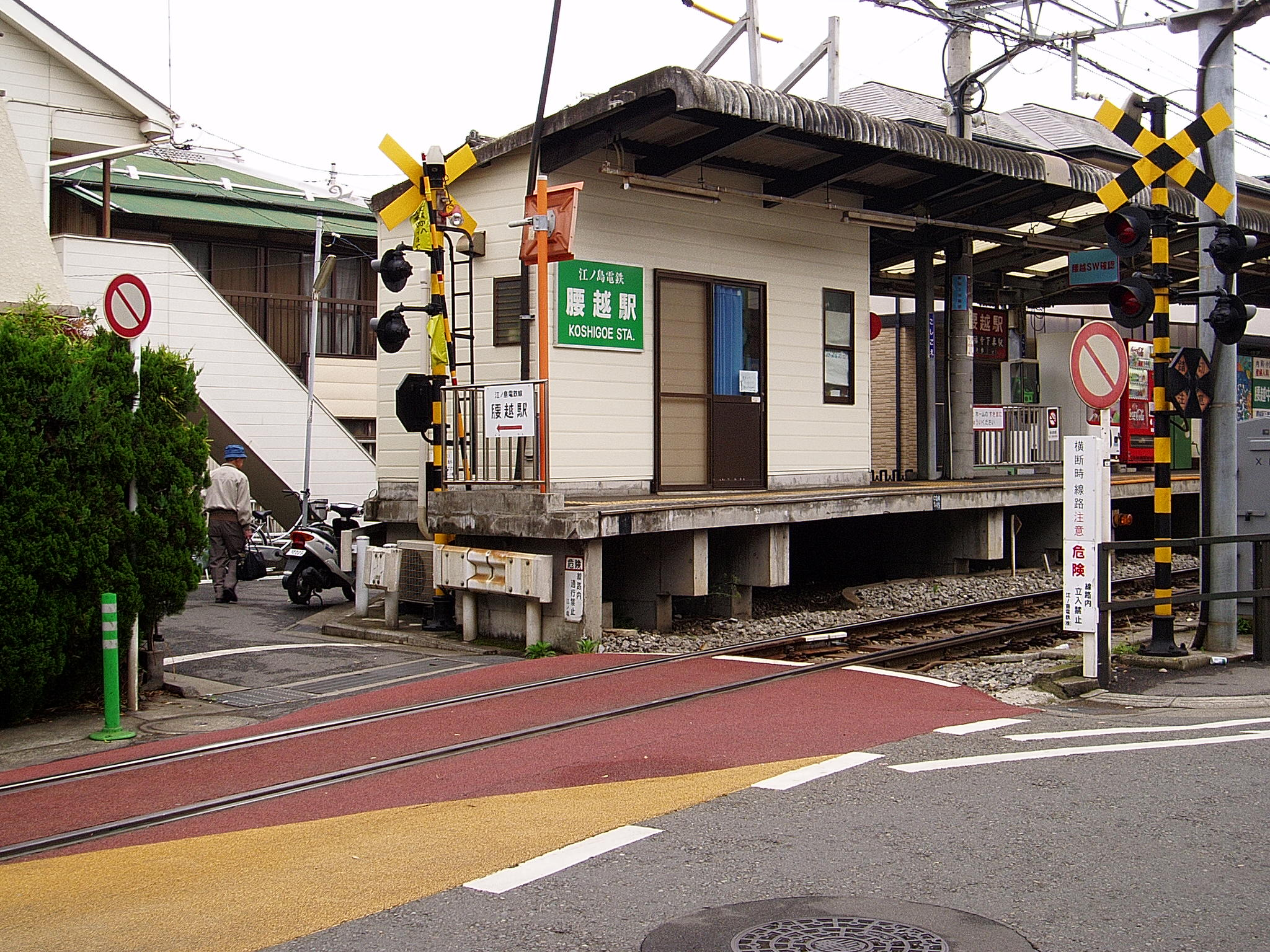 Enoden Koshigoe Station (Entrance from the Fujisawa side. Due to the tight limit, no gates were built on the intersection.)